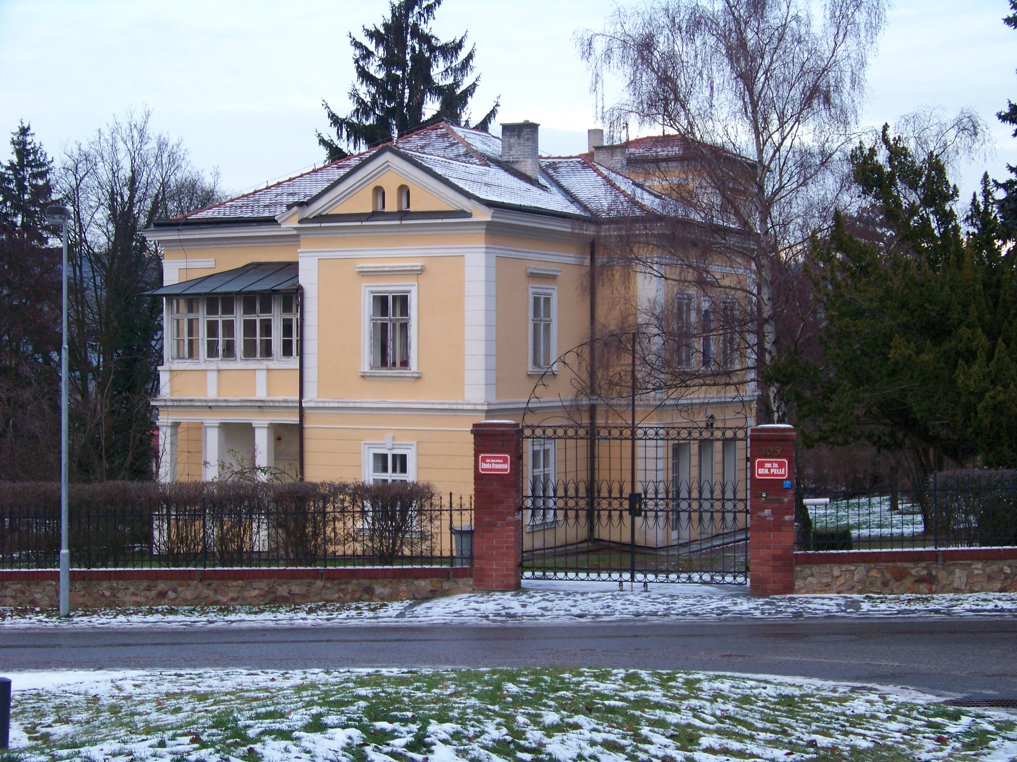 Dobřichovice-Brunšov, Prague-West District, Central Bohemian Region, the Czech Republic. A villa of gen. Pellé.